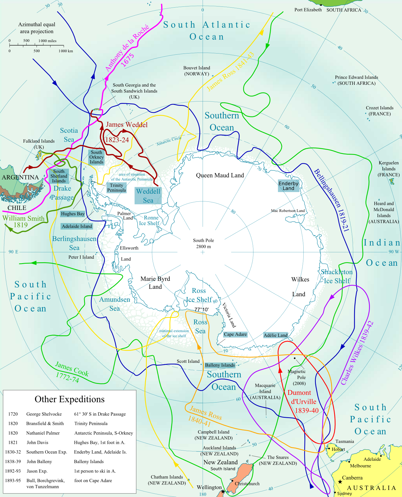 Map of the expeditions in Antarctica south of the Antarctic Convergence before the Heroic Age of Antarctic Exploration. Not included are the potential discoveries of Dirk Gerritsz, Gabriel de Castilla and the wreckage of the San Telmo. Also note that in the 19th century many whalers were operating in the Southern Ocean. Only those whalers who achieved important explorations are included in the map.